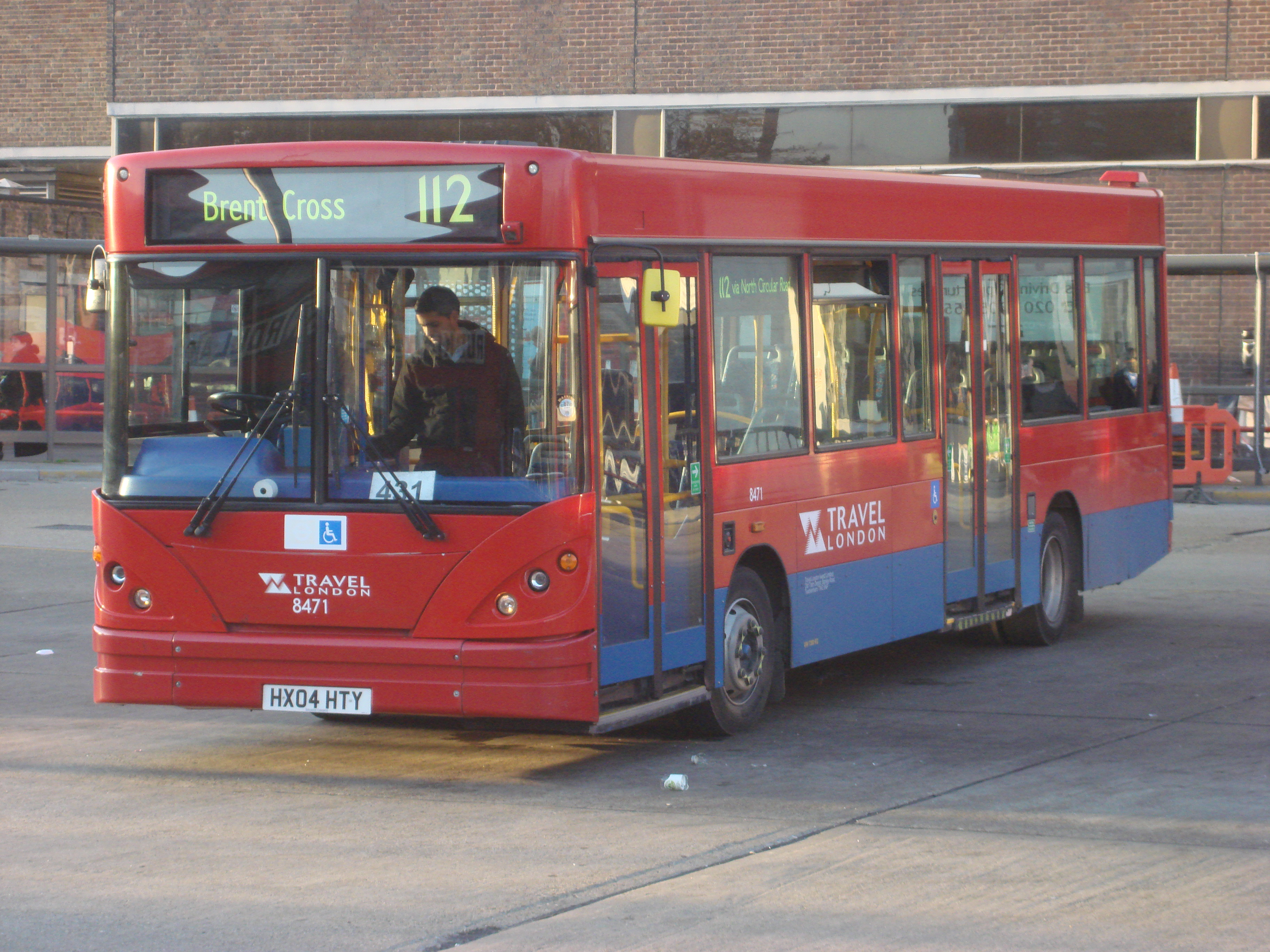 Travel London 8471 (HX04 HTY), a Dennis Dart SLF/Caetano Nimbus on London Buses route 112, in Brent Cross.